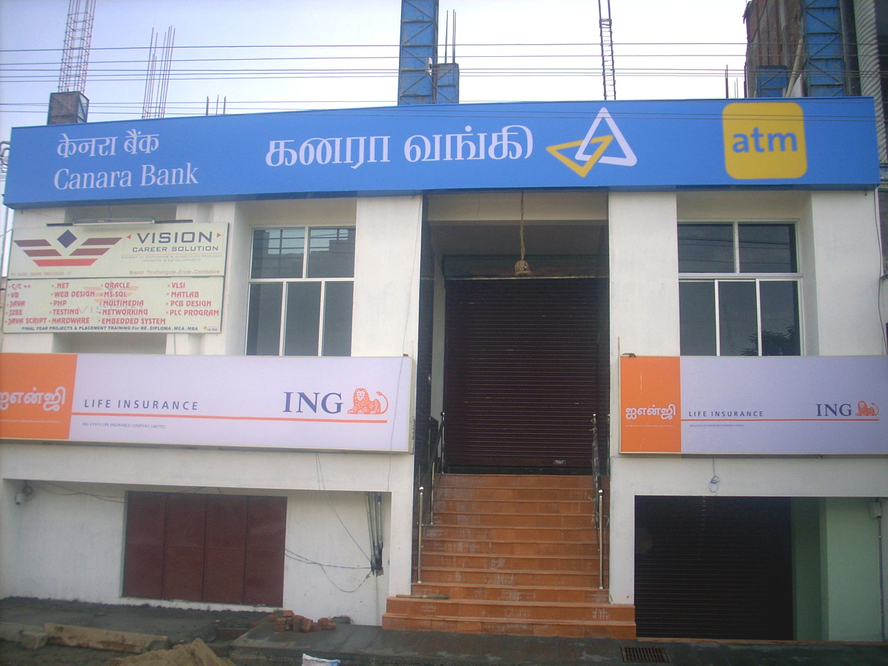 new building for Canara bank, Tamil Nadu, India.